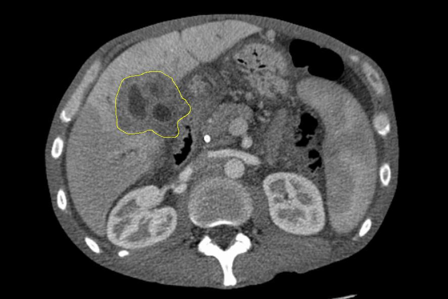 CT scan showing cholangiocarcinoma.